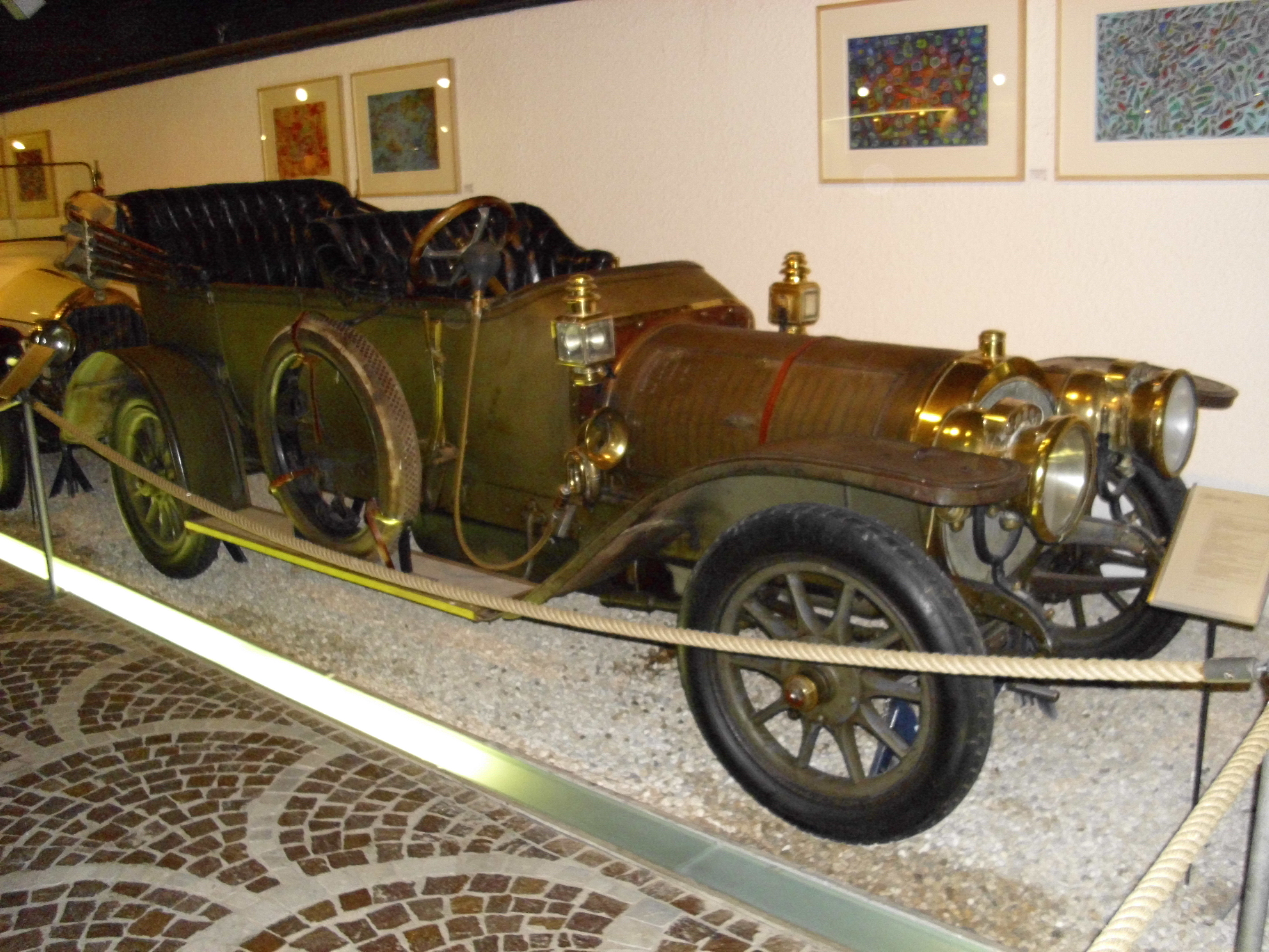 Germain 1909